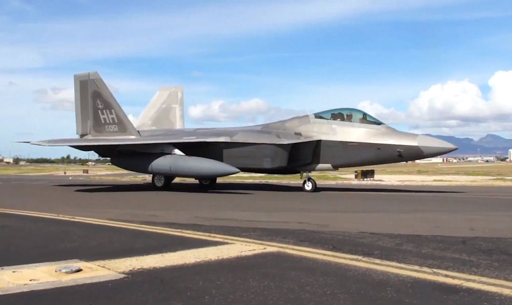 199th Fighter Squadron - Lockheed Martin F-22A LRIP Lot 3 Block 20 Raptor 03-4051